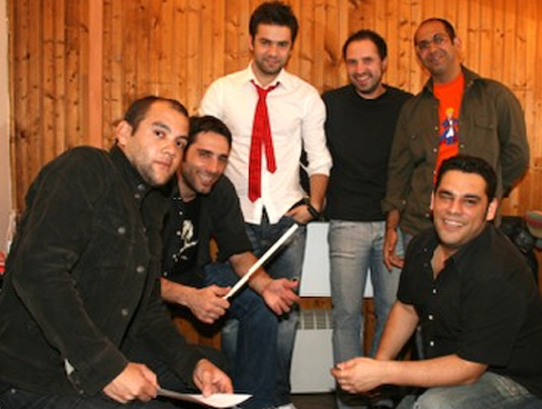 A picture I took of ONIRAMA backstage at Theatro Dasous in Thessaloniki, Greece.